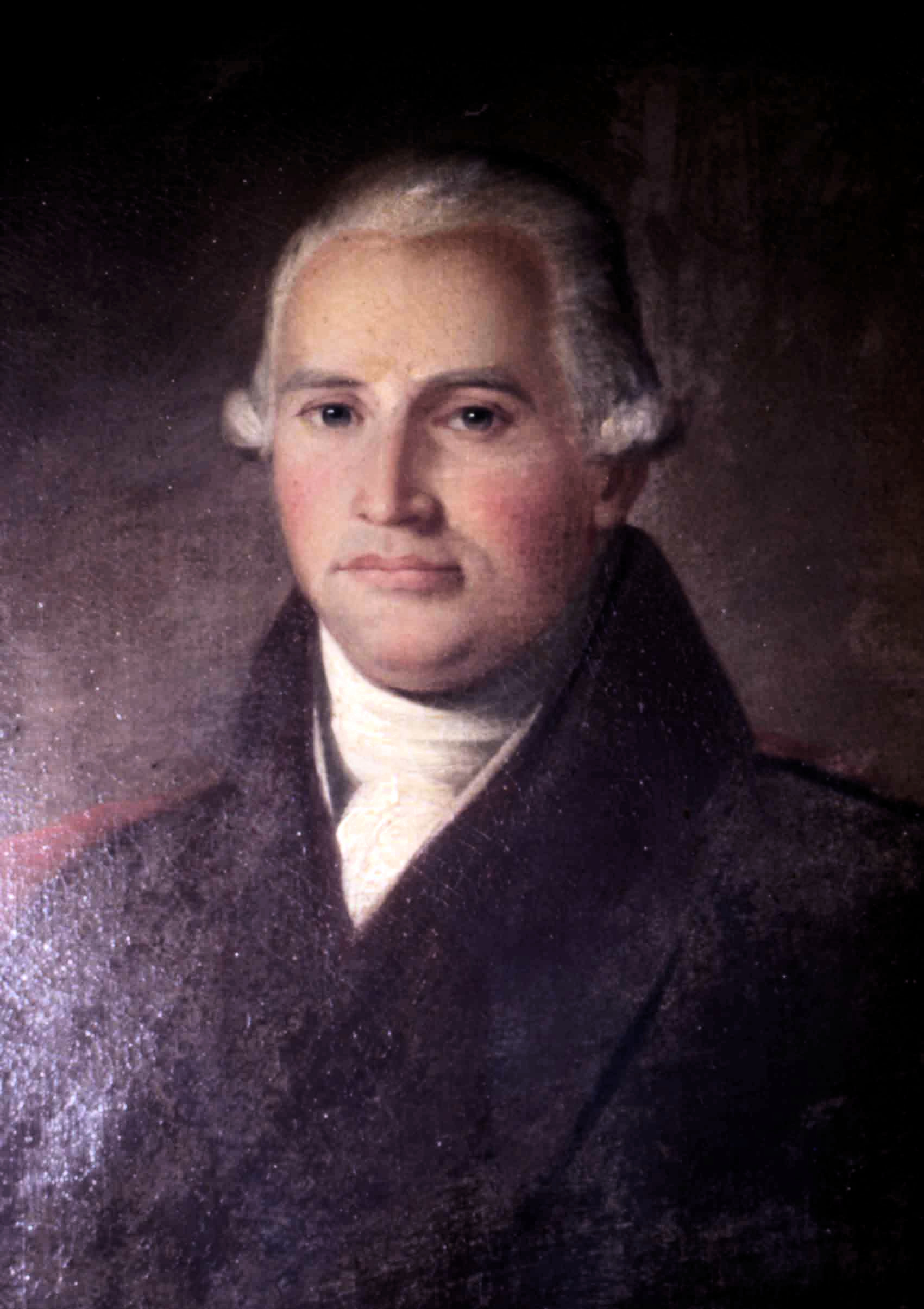 Half-length portrait of William Dunbar, American planter of Scottish origin, naturalist, astronomer and explorer, in possession of descendants of William Dunbar